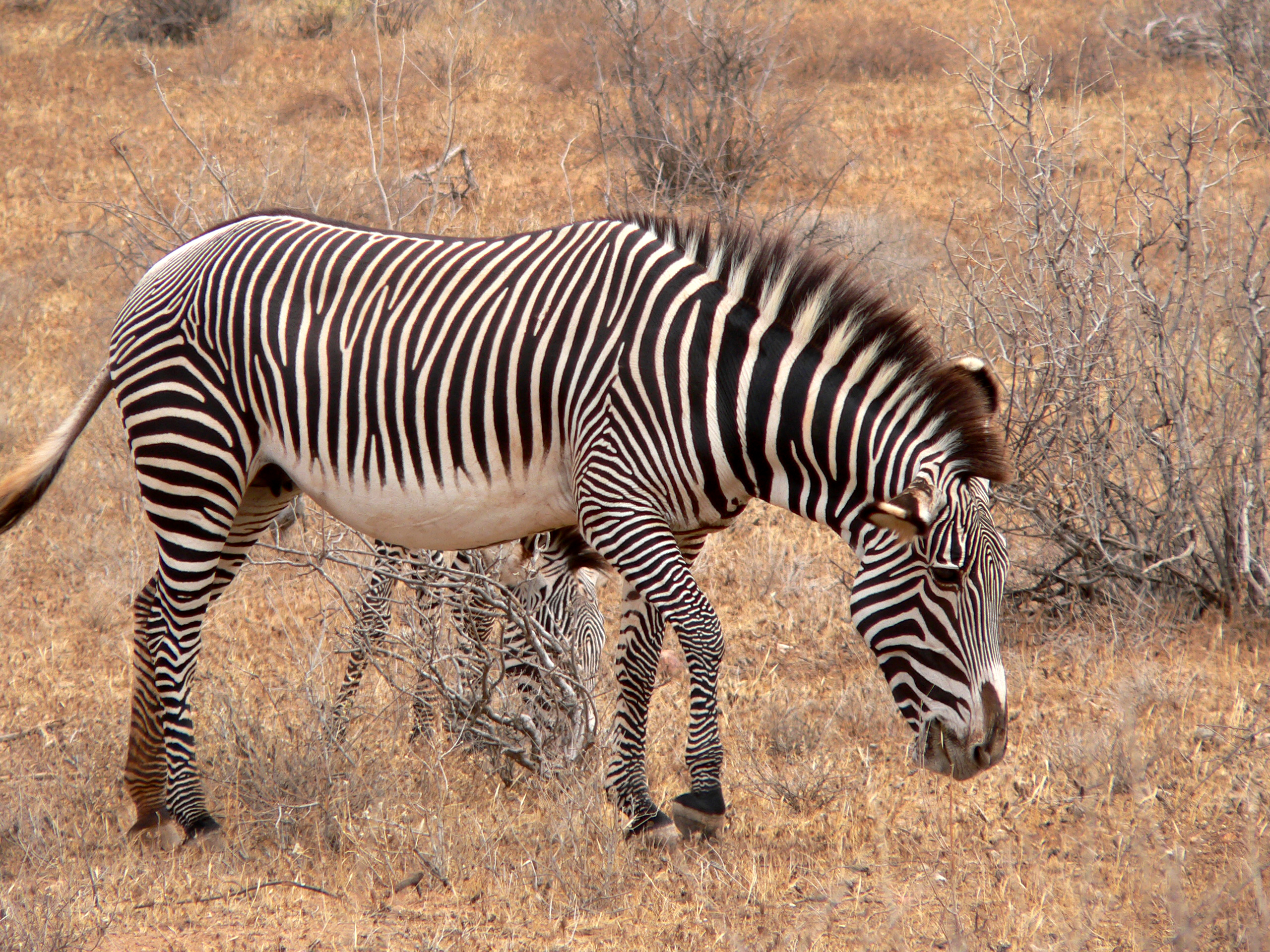 Female Grevyi's Zebra (Equus grevyi) with a calf behind her, in Kenya.